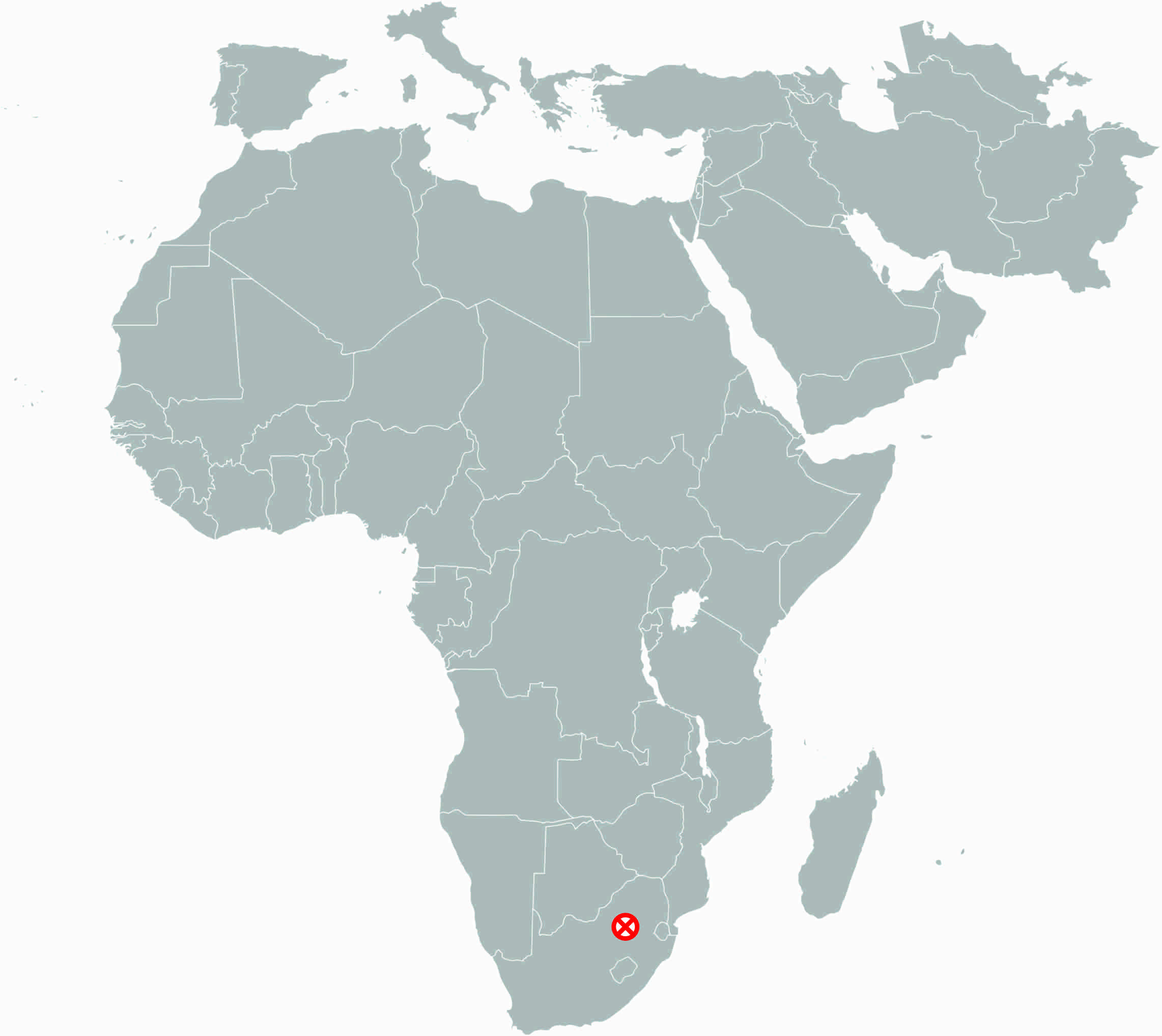 Paranthropus (Australopithecus) robustus paleoanthropological sites in South Africa (Swartkrans, Kromdraai, Drimolen, Coopers, Gondolin)